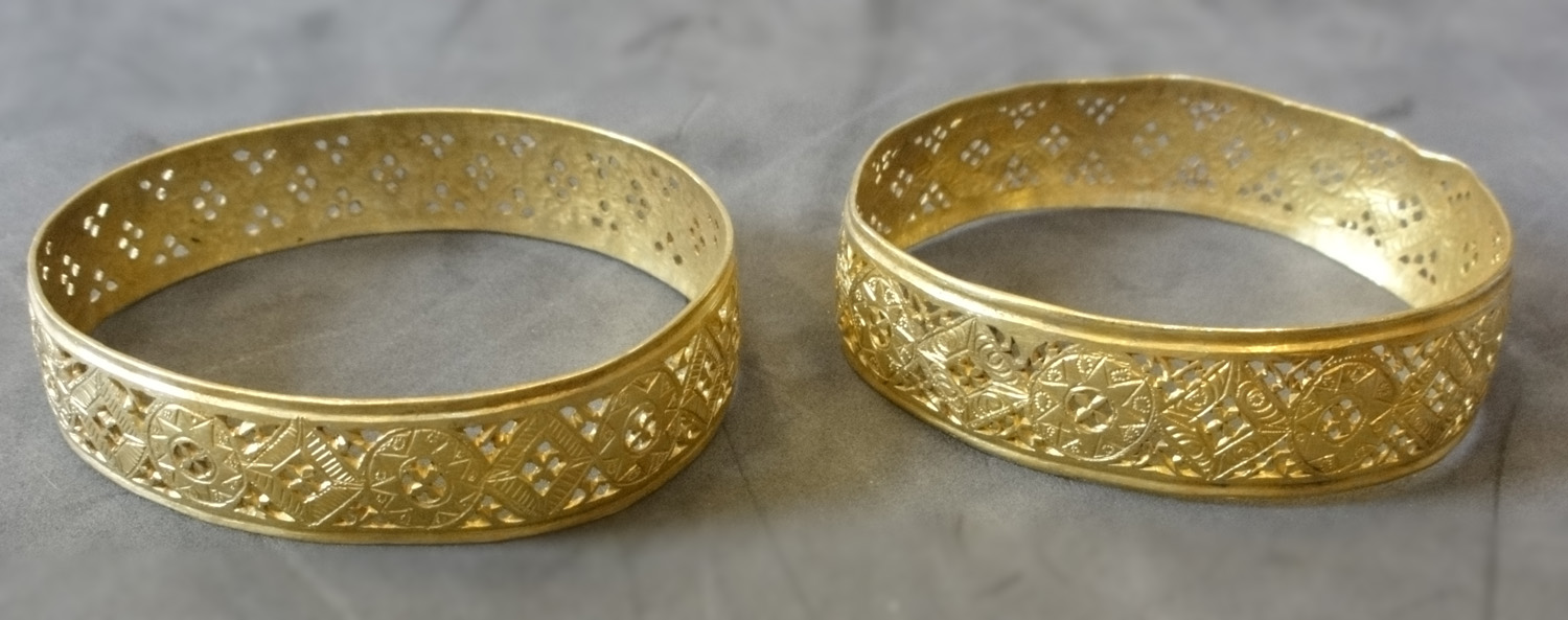 Two gold bracelets from the Hoxne Hoard, in the British Museum. Photo taken during BM/Wikipedia workshop.